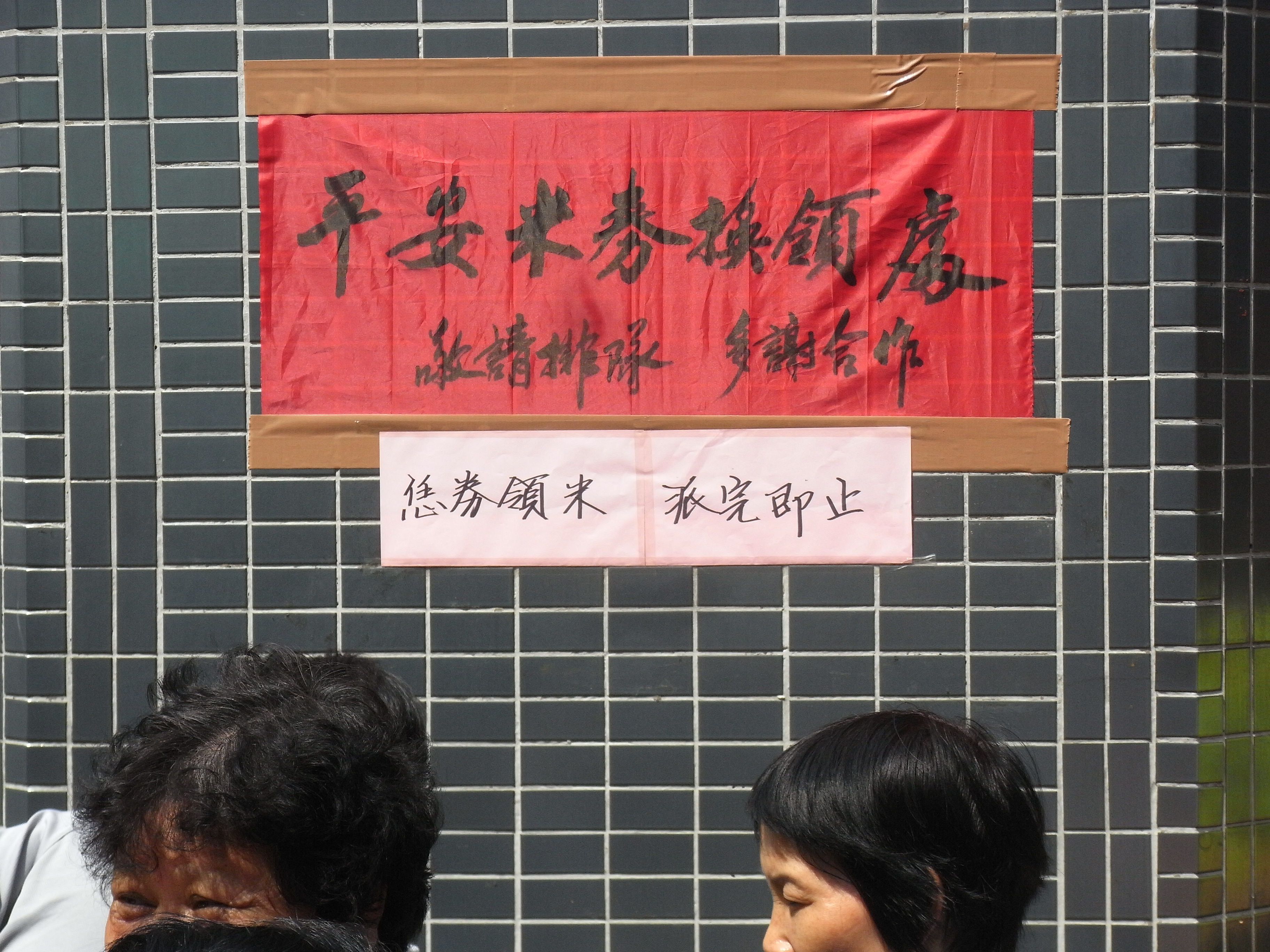 上環 廣澤尊王, Chinese Guang Ze Zun Wang Charitable Fund event, Sheung Wan, Hong Kong